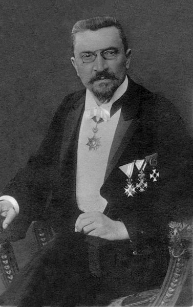 Photograph by Milan Jovanovic of Stevan Stojanovic Mokranjac, around 1900.